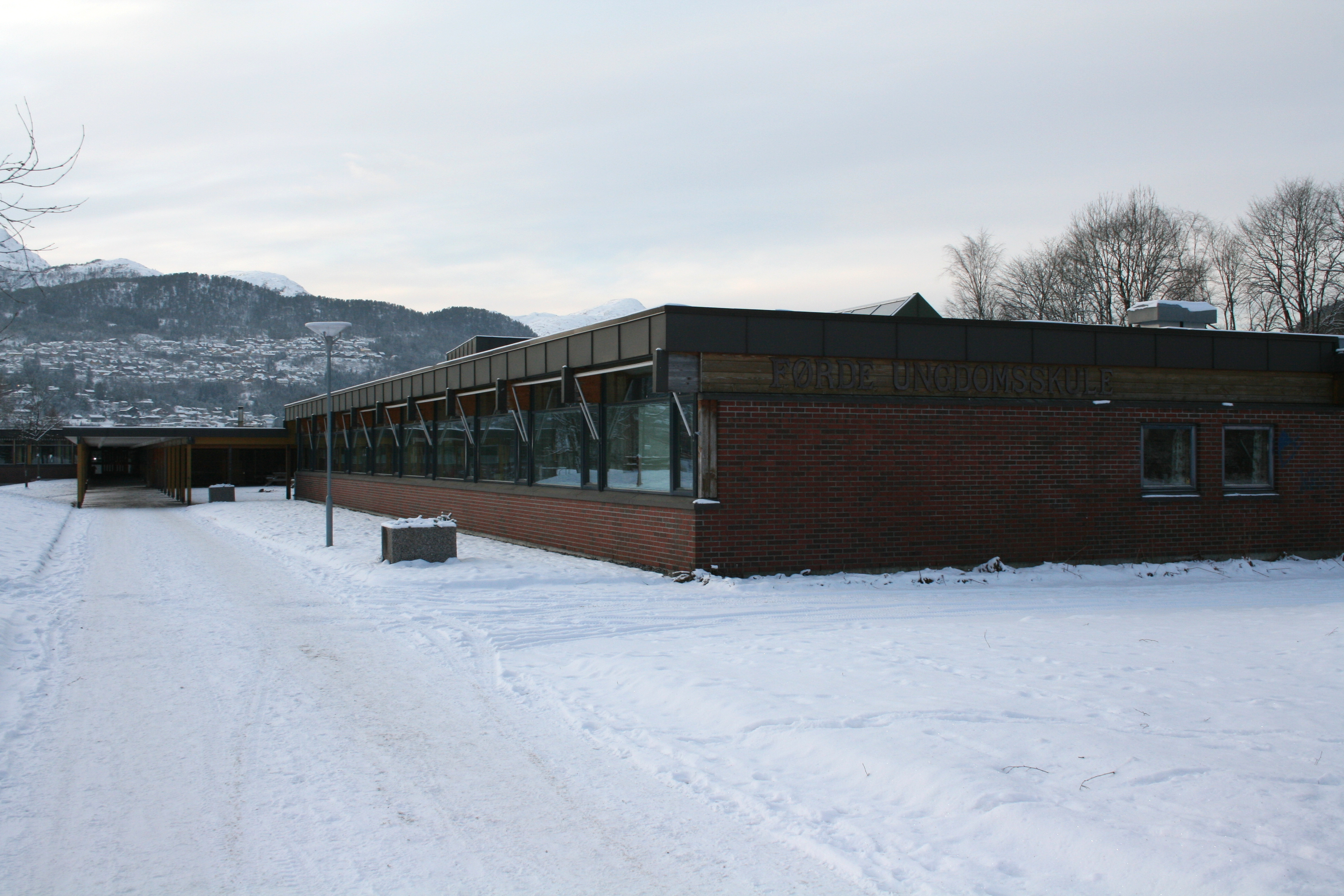 Førde Secondary School in Førde kommune, Sogn og Fjordane, Norway (entrance).